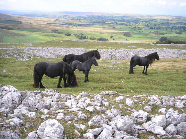 Fell ponies Ponies on Stennerskeugh Clouds.